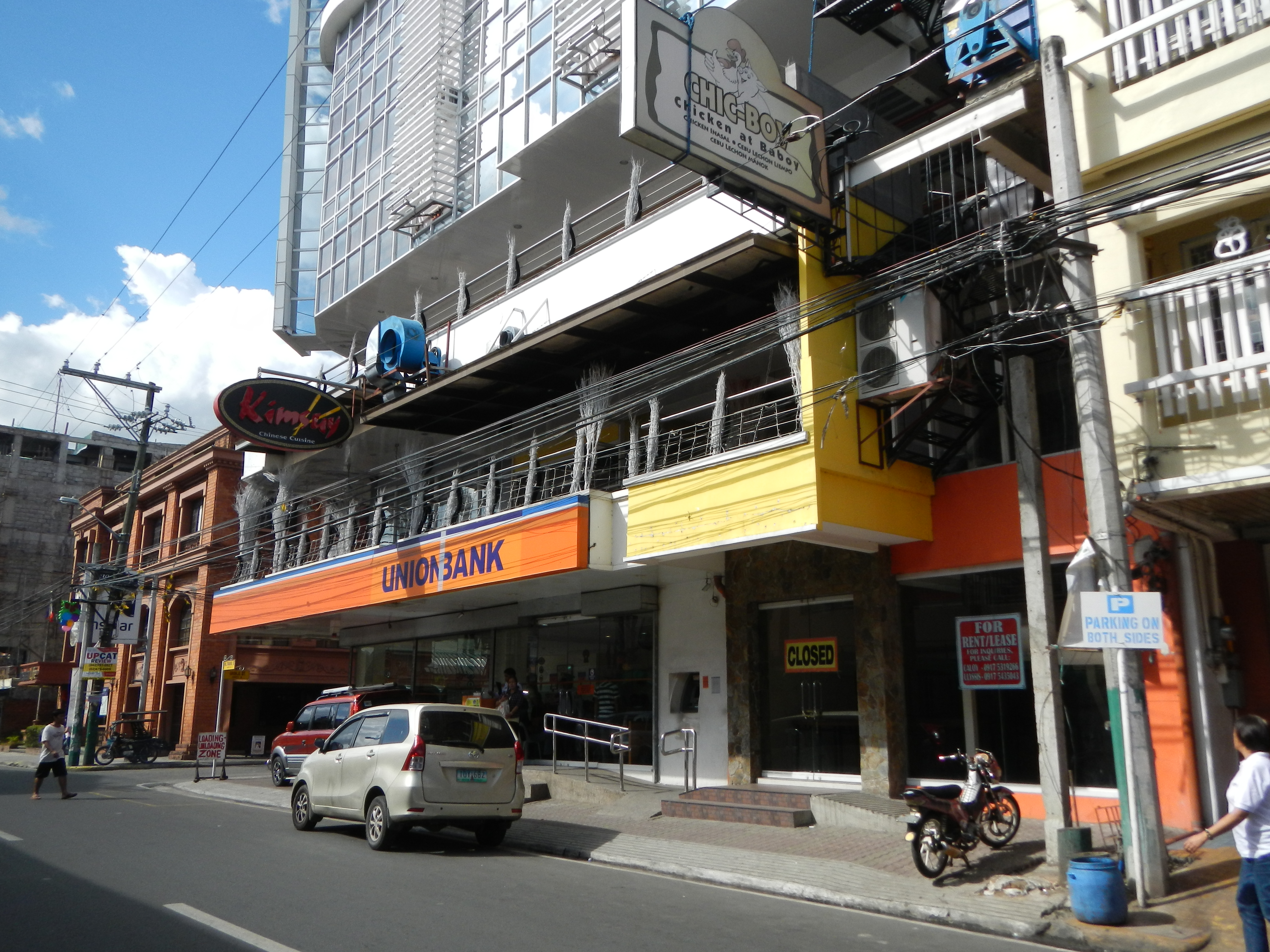 Upload Wizard photos -- (General description, 3-dimension angle by angle photography of these neighbor towns, including the church & landmarks) -- of Scenic route[1] of the Pan-Philippine Highwa [2] also known as the Daang Maharlika Highway AH26 AH26 - passing along - Lucena City - City Proper - Saint Ferdinand Cathedral of Lucena City Episcopal District of St. John In-Charge: Msgr. Leandro N. Castro, P.C. Vicariate of St. Peter Vicar Forane: Father Crizaldy S. Maaño Canonical Erection: 1881 Titular: St. Ferdinand, Parochial Vicars: Father Danilo F. Manuel Father Wakefield C. Lagarile Father Jordan C. Cada [3] of the Roman Catholic Diocese of Lucena - SM City Lucena[4].